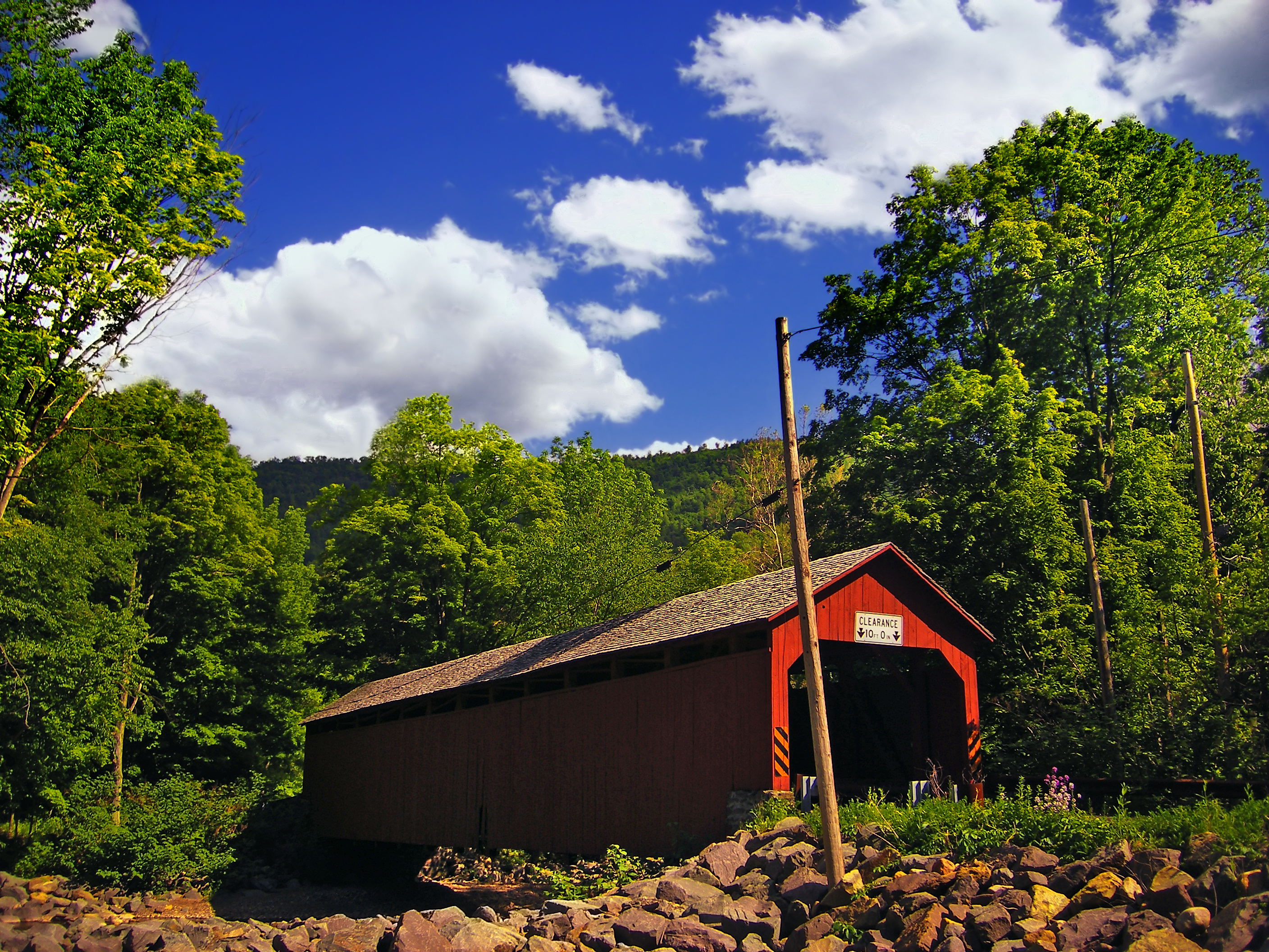 North side and west portal of Sonestown covered bridge, Davidson Township, Sullivan County, Pennsylvania